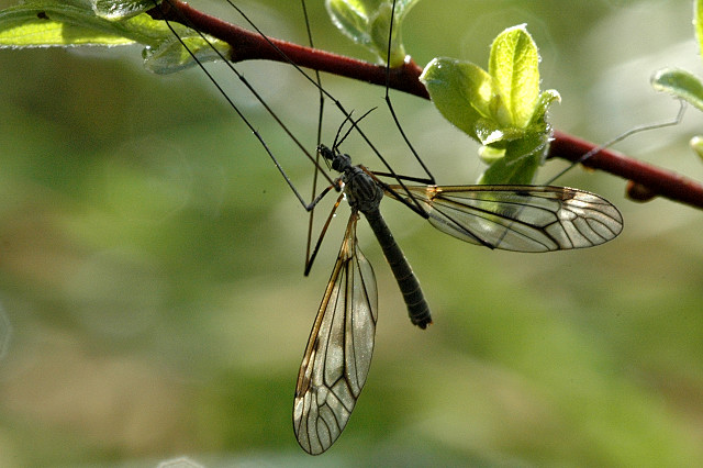 Picture taken in Commanster, Belgian High Ardennes . Species: male Tipula hortorum